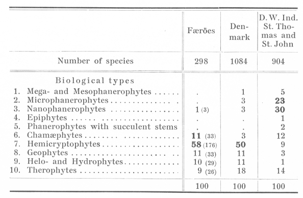 Table of Raunkiær lifeforms in the Faroe Islands, Denmark proper and the Dan. West Indies (US Virgin Islands)